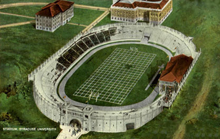 Syracuse University - Archbold Stadium - 1910